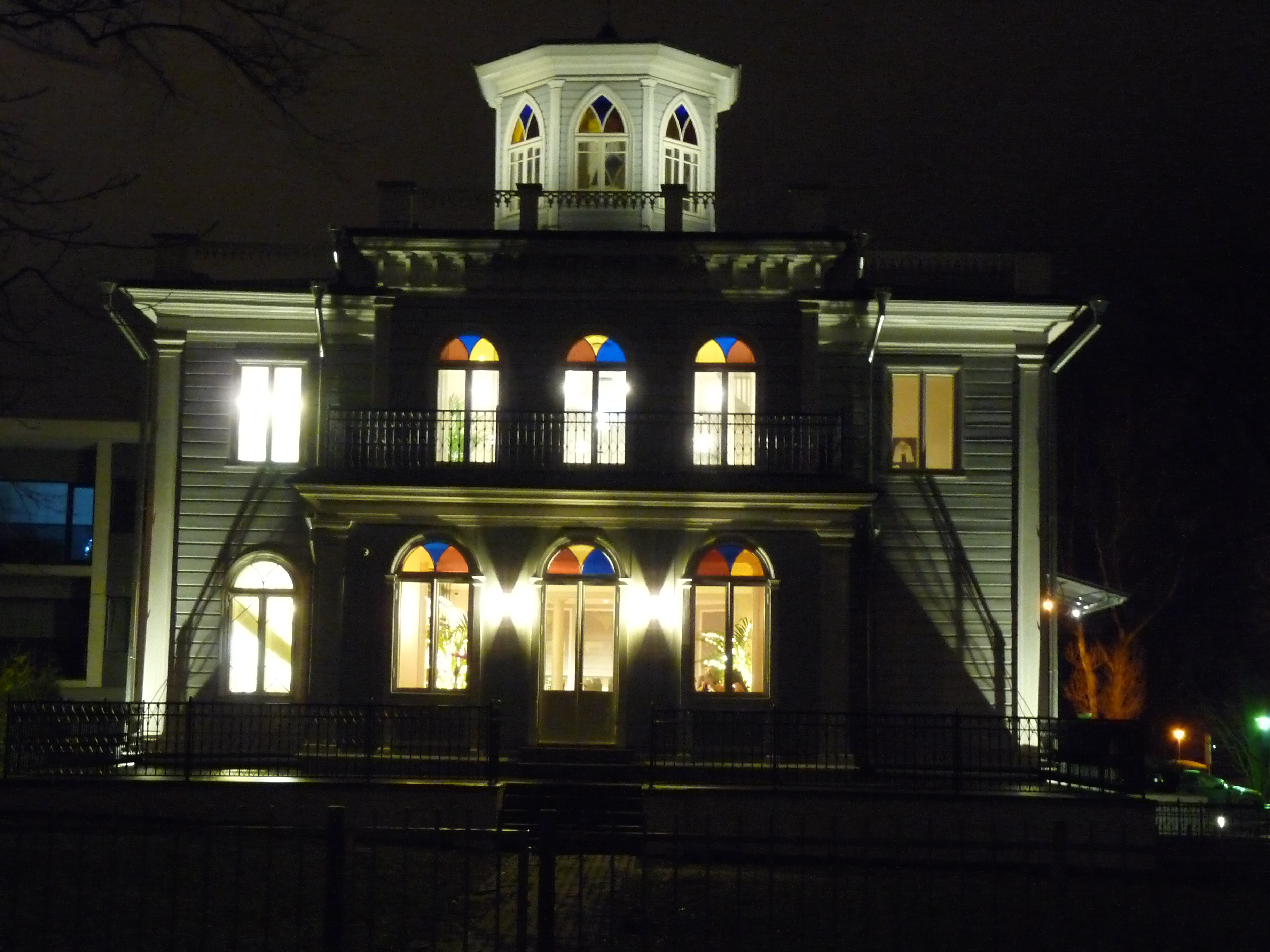 Villa Mon Repos